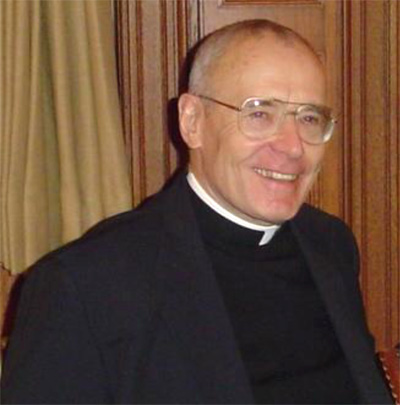 Father Ian Boyd, Founder of The Chesterton Review